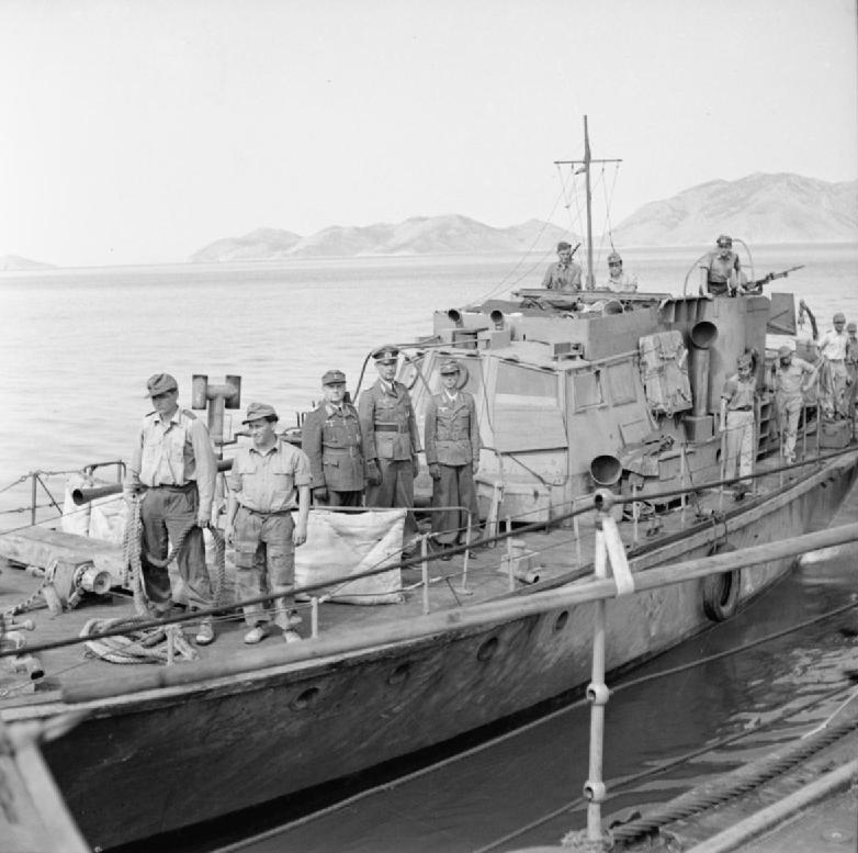 Major General Wagner, Commander of German forces in the Dodecanese, and two of his staff officers come alongside the destroyer HMS KIMBERLEY, on a motor launch which the Germans had captured from the British a few months previously. The KIMBERLEY took Wagner to the island of Symi in the Aegean, where the unconditional surrender of German forces in the region was signed. (Comment: most probably HDML motor launch, possibly ML 1039 or 1069 captured in Tobruk in 1942)